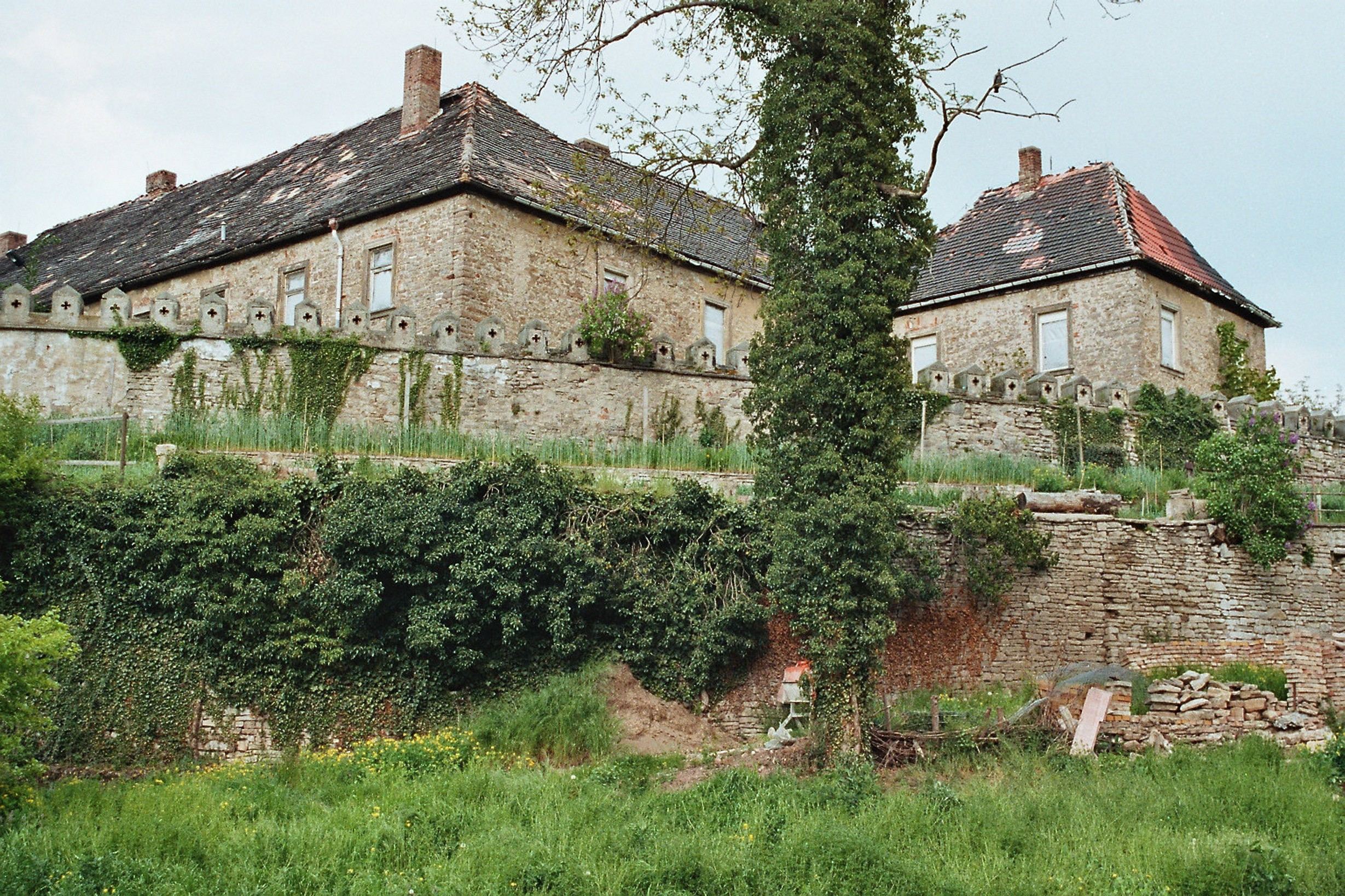 Gröna (Bernburg), the palace This is a photograph of an architectural monument. 60794